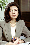 Meglena Kuneva, European Commissioner for Consumer Protection